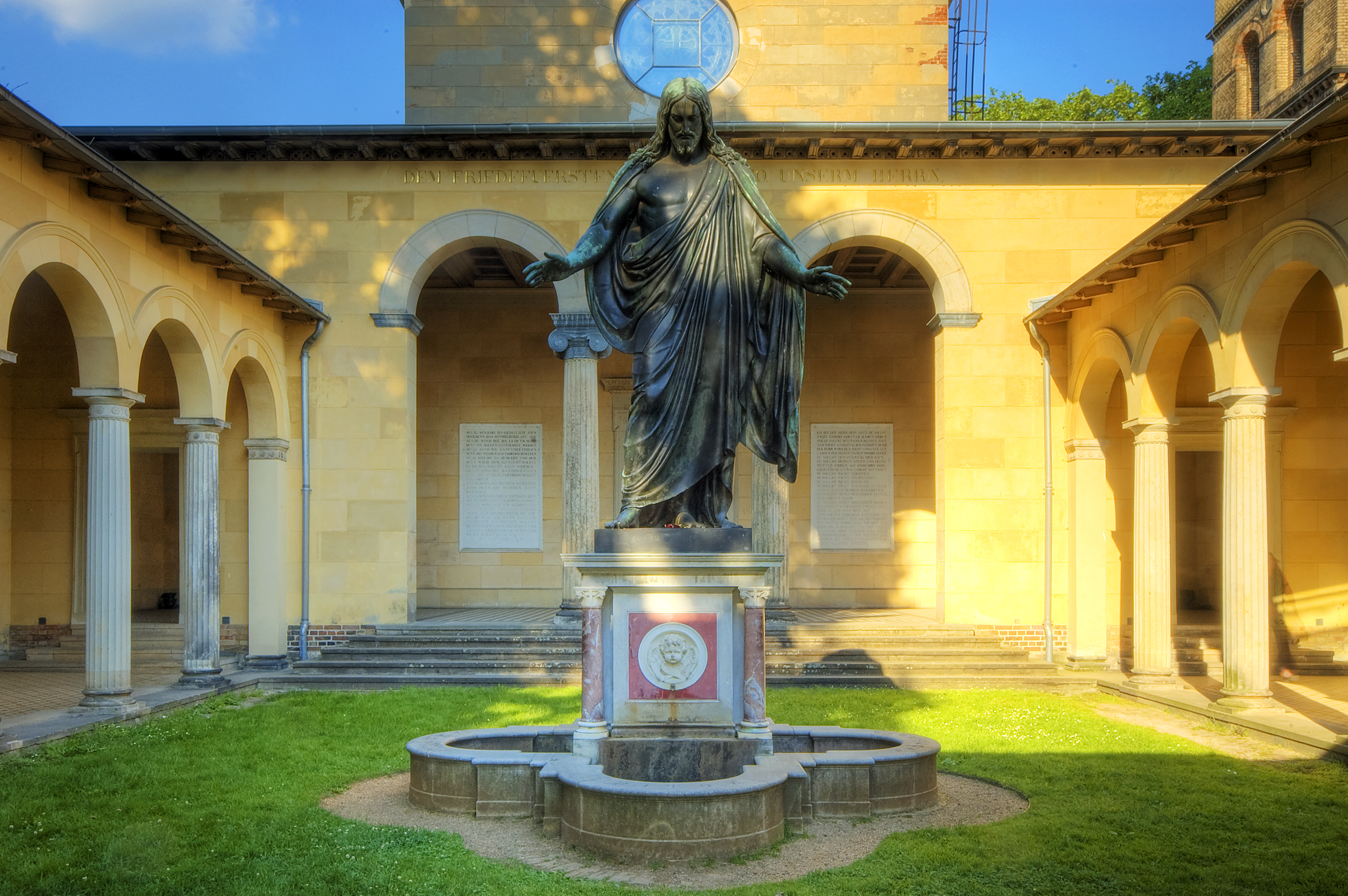 The Church of Peace (German: Friedenskirche) is situated in the Marly Gardens on the Green Fence in the palace grounds of Sanssouci Park in Potsdam, Germany.